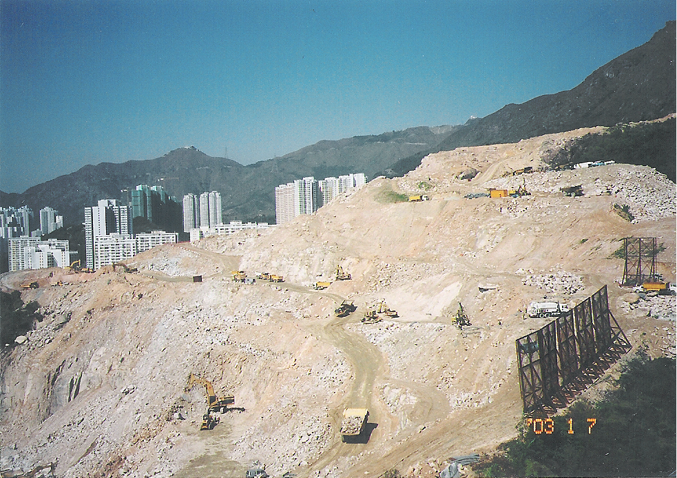 A view taken from Choi Ha Estate towards the north. Choi Fook Estate was under construction.